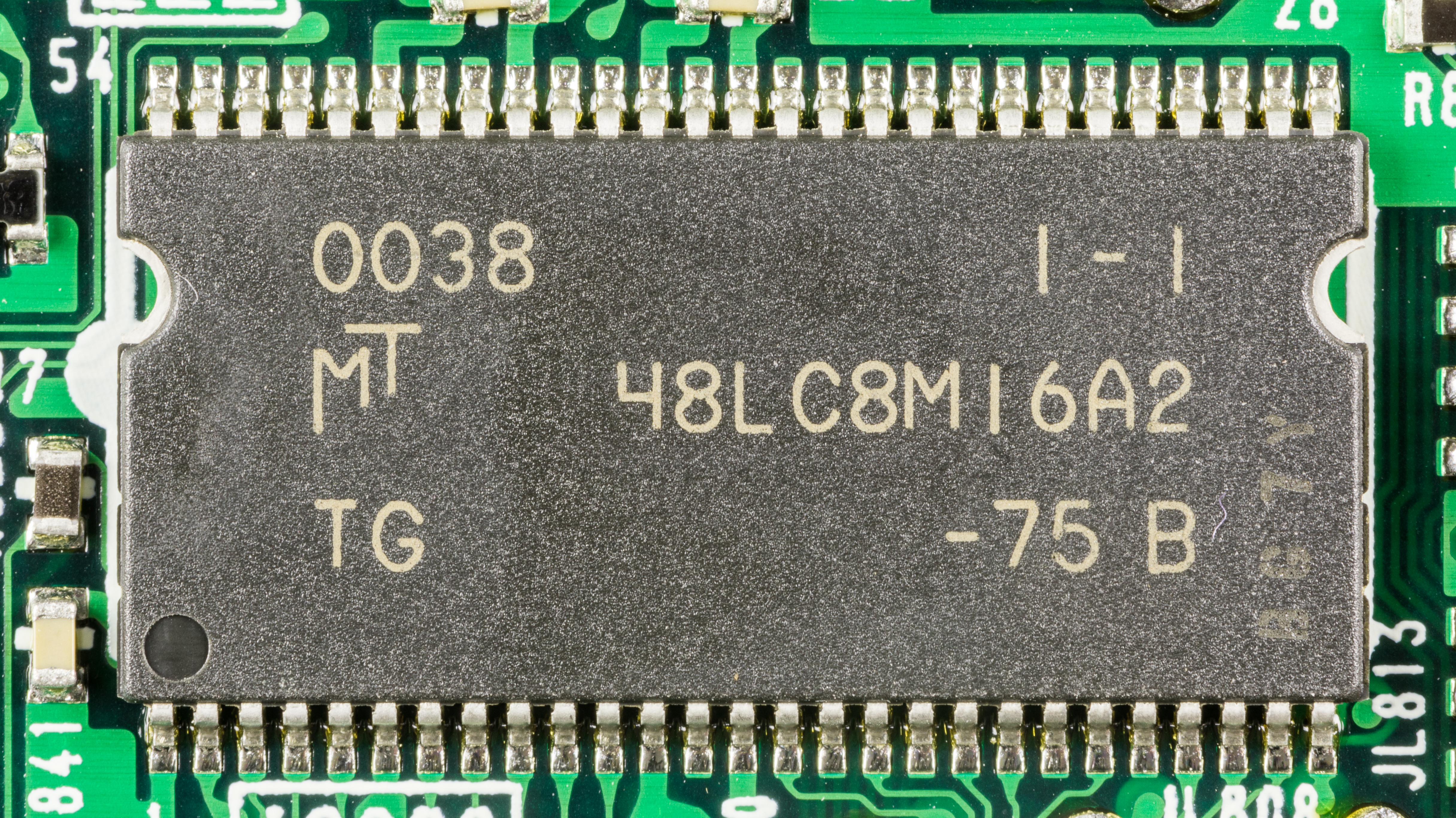 Sony VPL-HS1 - SD Card board - Micron MT48LC8M16A2a - Automotive SDR SDRAM 2 Meg x 16 x 4 Banks. Package: 54-pin TSOP II